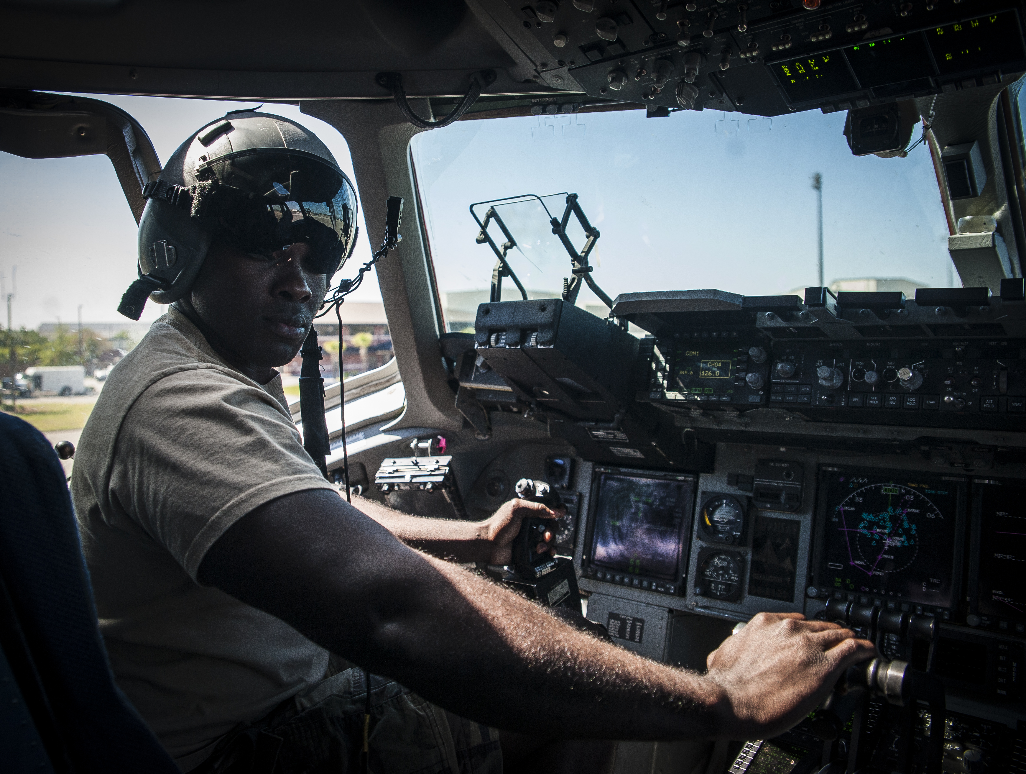 Army Wives actor Joshua Henry sits in the cockpit of a C-17 Globemaster III during a tour of the aircraft April 26, 2013, at Joint Base Charleston –Air Base, S.C. Army Wives tells the story of four women and one man who are brought together by their common bond - they all have military spouses. The series is based on the book "Under the Sabers: The Unwritten Code of Army Wives" by Tanya Biank and is produced by ABC Television Studio and The Mark Gordon Company. (U.S. Air Force photo/Senior Airman Dennis Sloan)